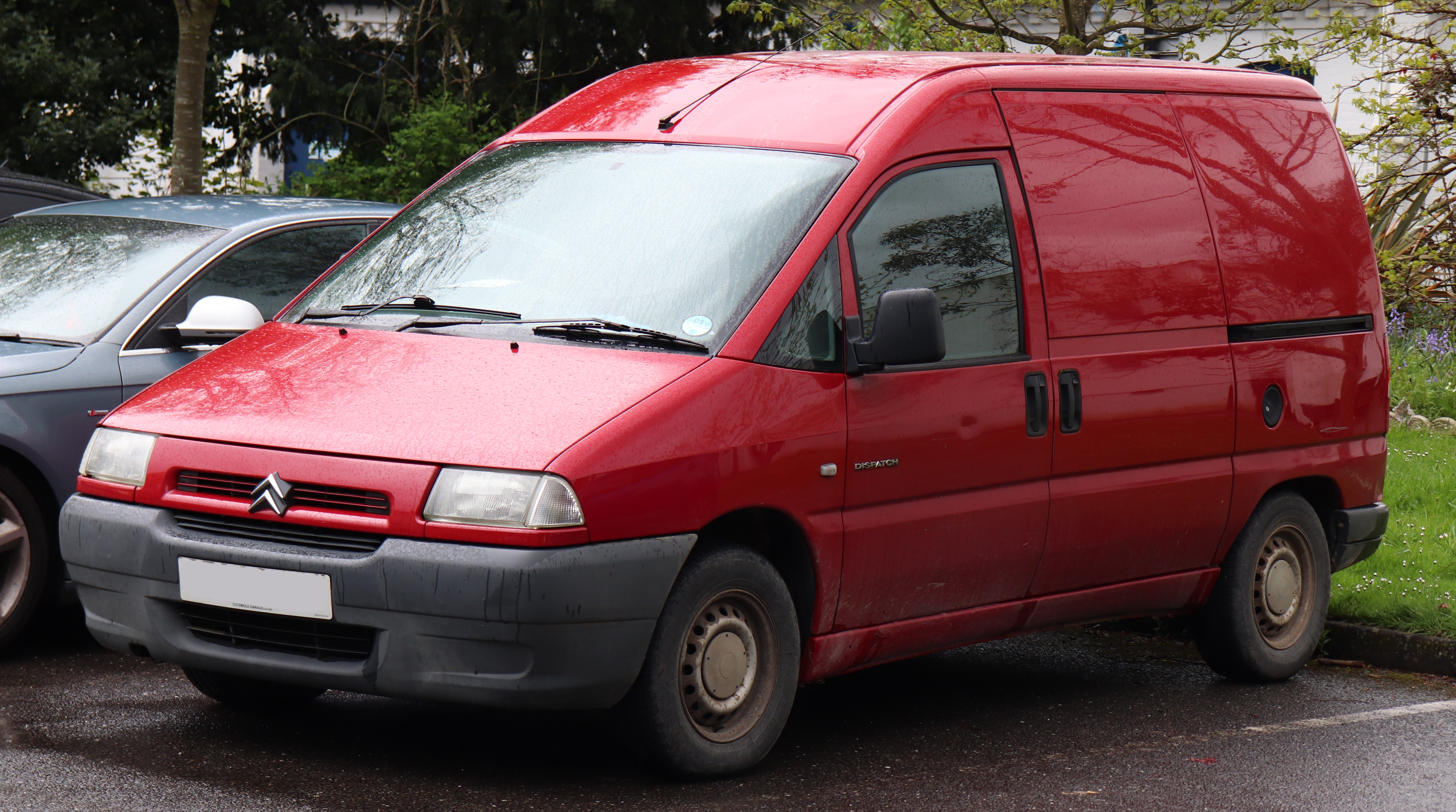 2002 Citroen Dispatch Diesel 1.9 Taken in Leamington Spa